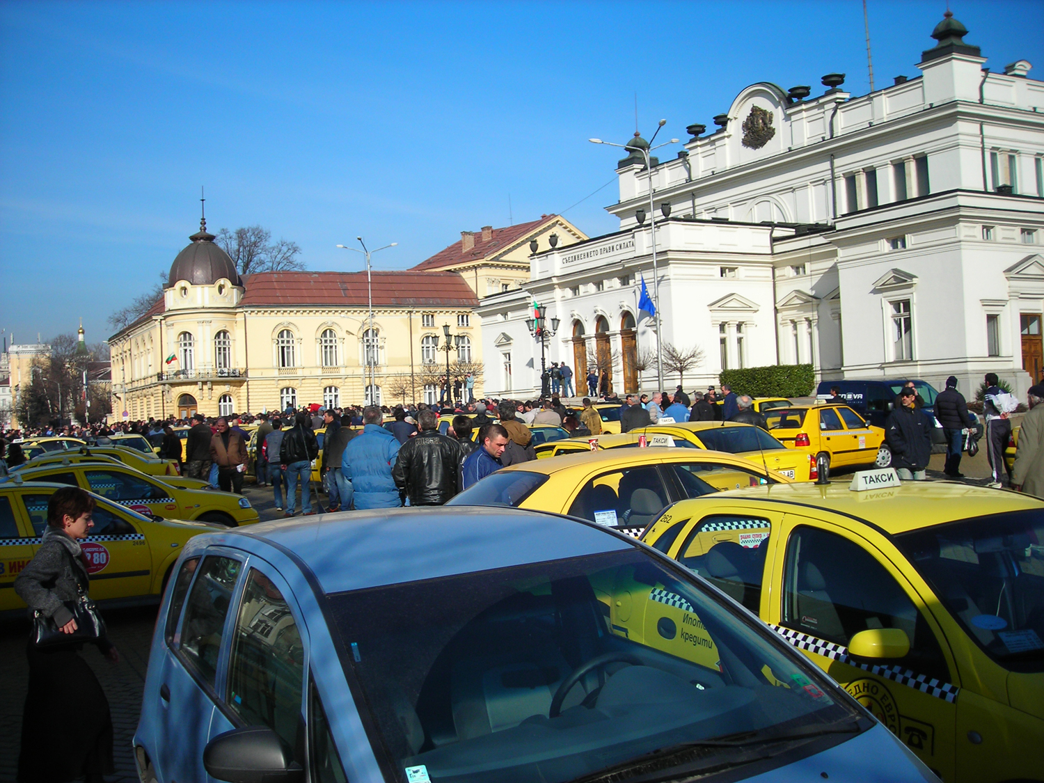 Taxi drivers protest and civil disobedience in Sofia, Bulgaria